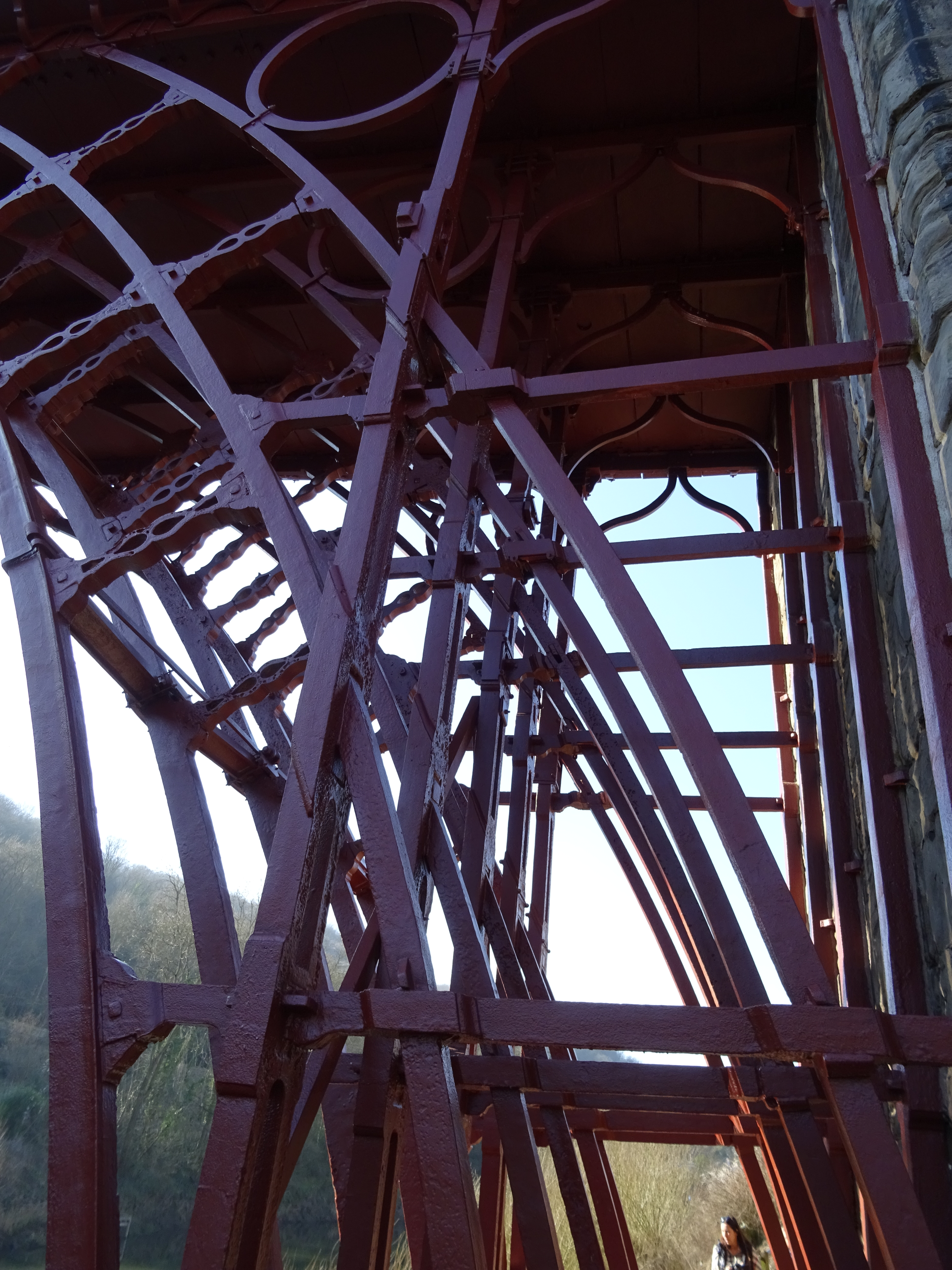 Details of the north end of the Iron Bridge taken from the east in February 2019.